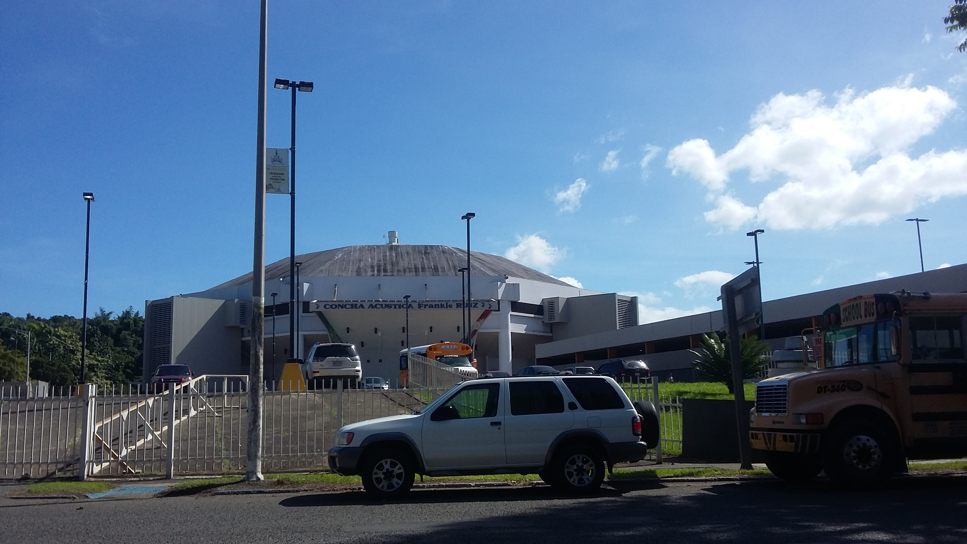 Palacio de Recreación y Deportes